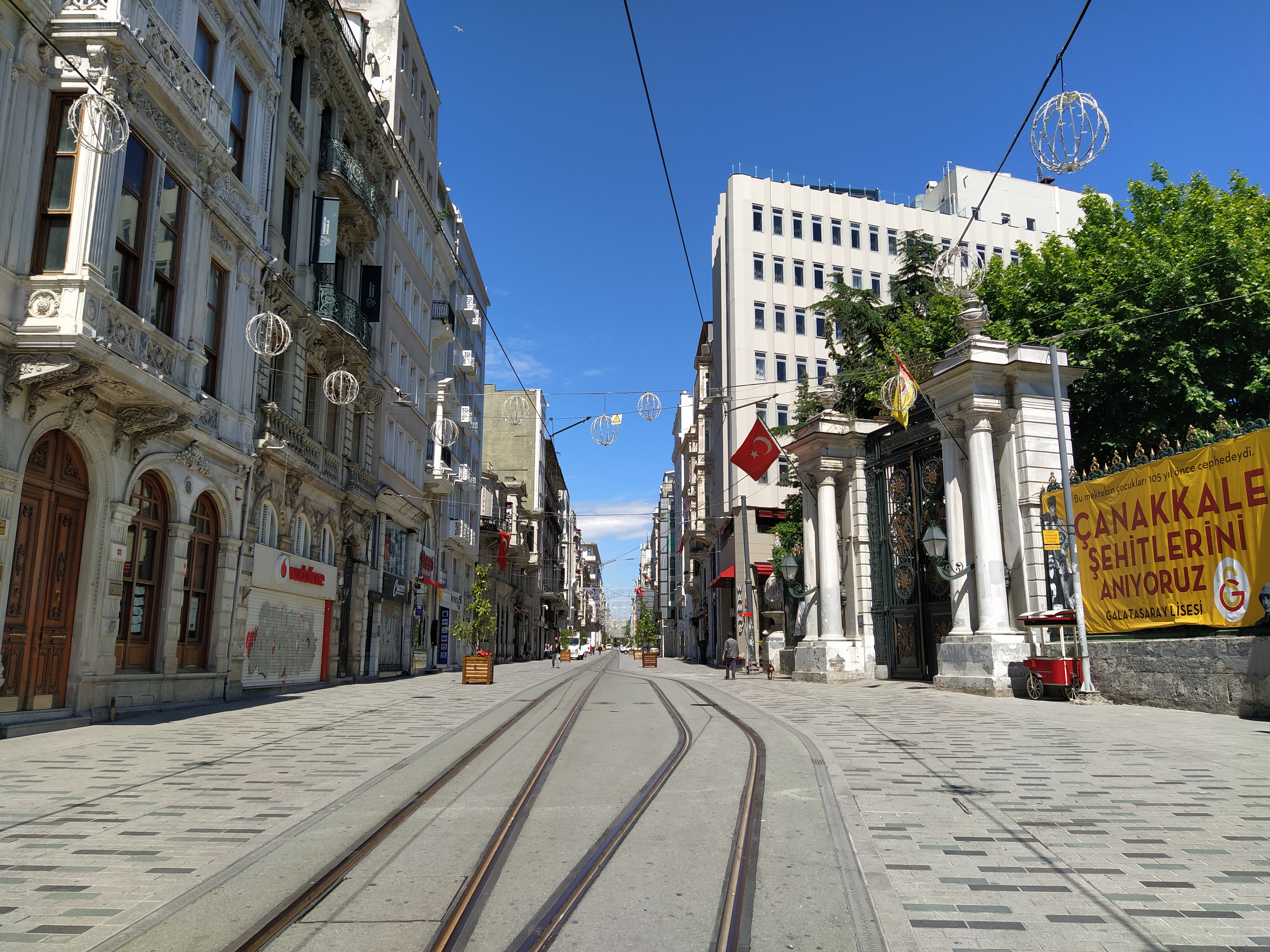 Istiklal Avenue and Galatasaray Square during the curfew dated May 30, 2020.